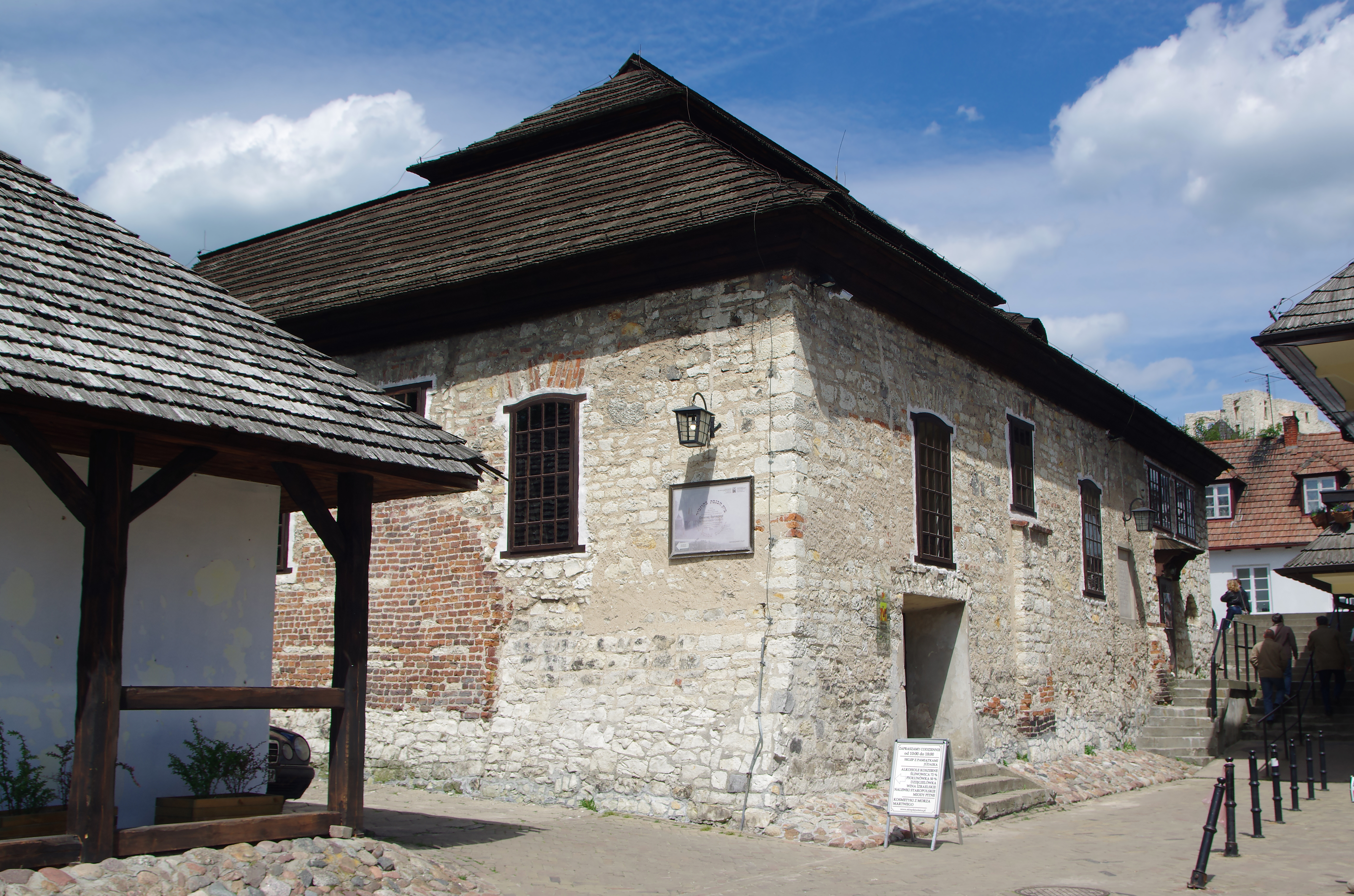 Synagogue in Kazimierz Dolny